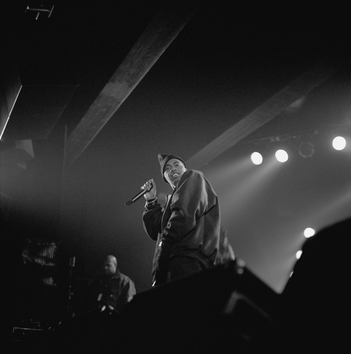 Hamburg/Germany 2003